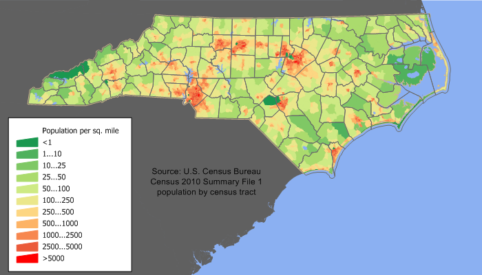 North Carolina population density map based on Census 2010 data